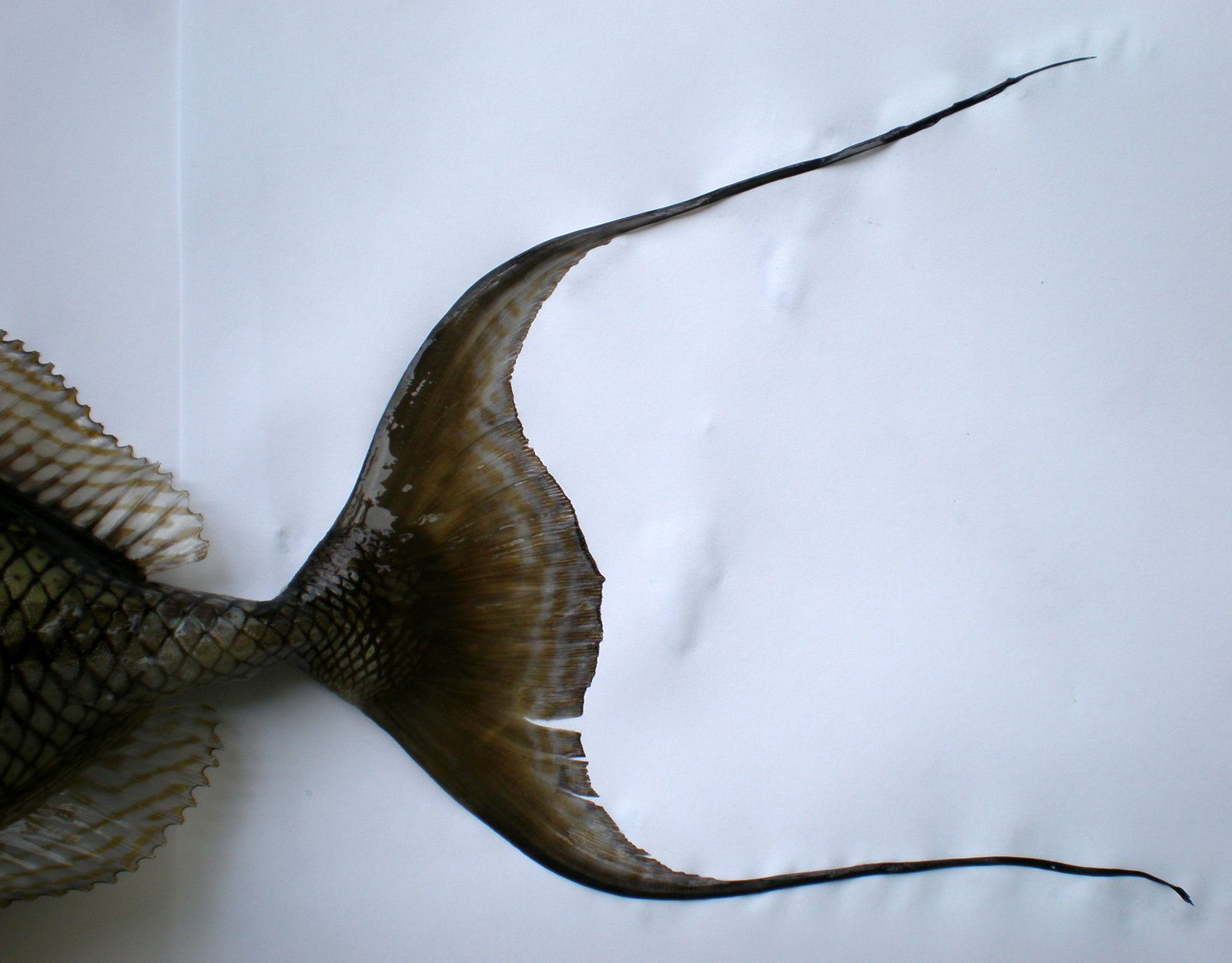 Abalistes filamentosus from New Caledonia. Locality: interior of Récif Kué near Passe Mato, 22°39S, 166°36E, depth 30-40 m. Fork length 340 mm, Weight 888 grams. Date 24-10-2008. This photograph was also uploaded to FishBase.